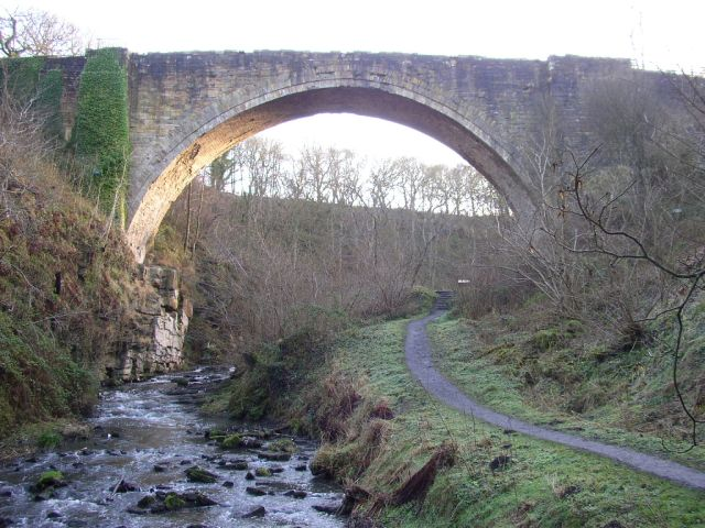 The Causey Arch. Designed by Ralph Wood, the Causey Arch, was built in 1725-6 and is the oldest surviving single arch railway bridge in the world. It spans the gorge of Causey Burn.